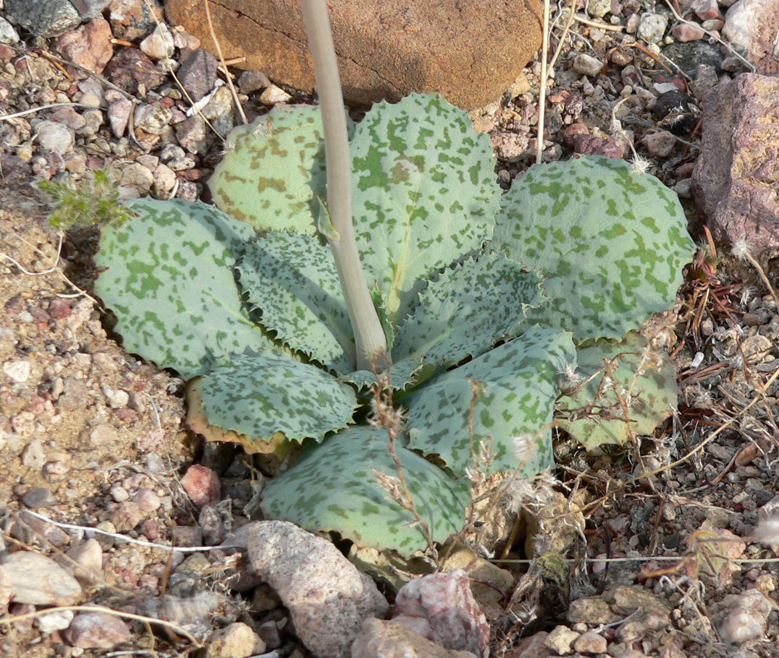 Atrichoseris platyphylla near route 178, two miles east of Jubilee Pass, Death Valley National Park